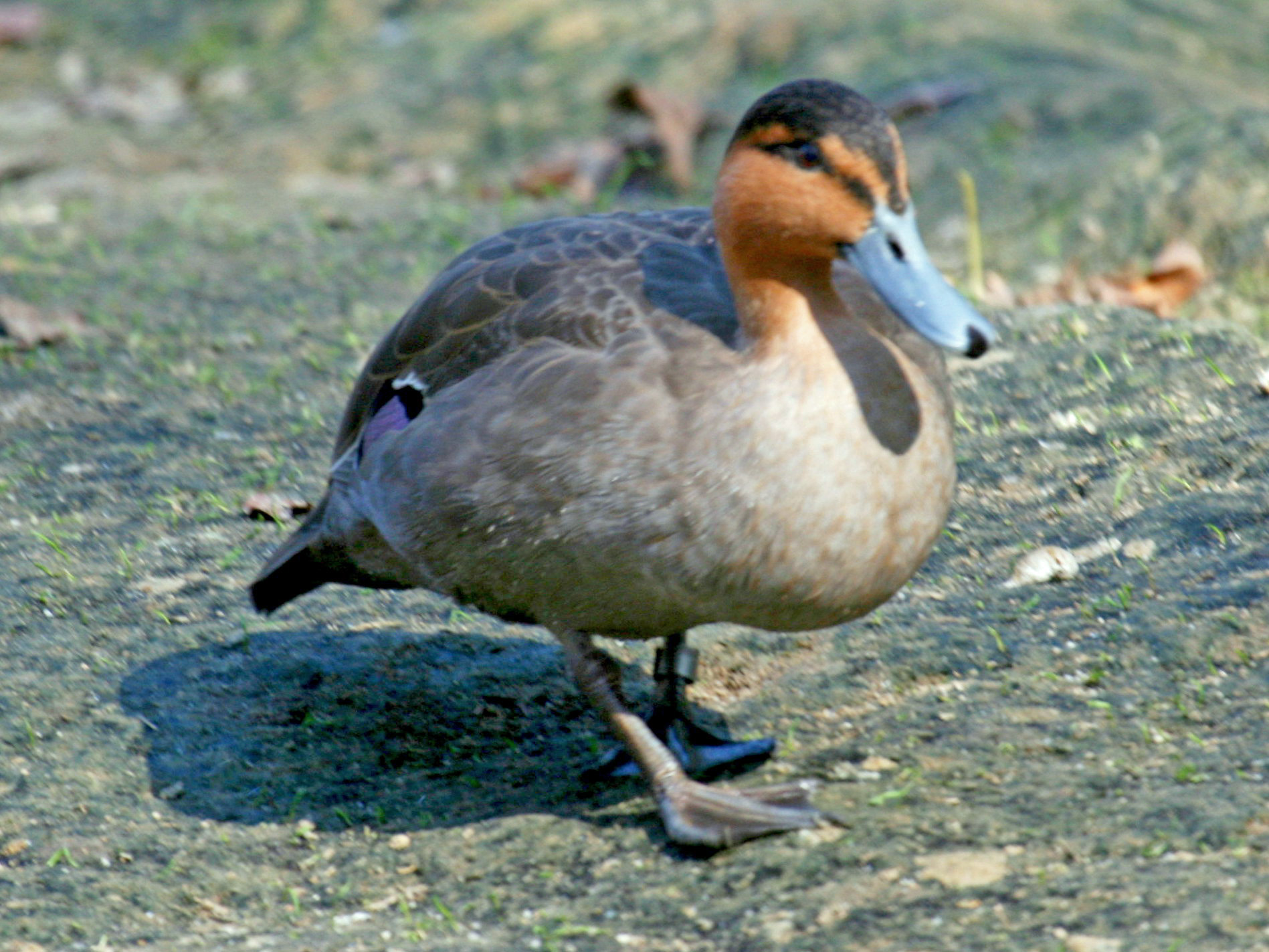 Philippine Duck (Anas luzonica) at Sylvan Heights Waterfowl Park in Scotland Neck, North Carolina.